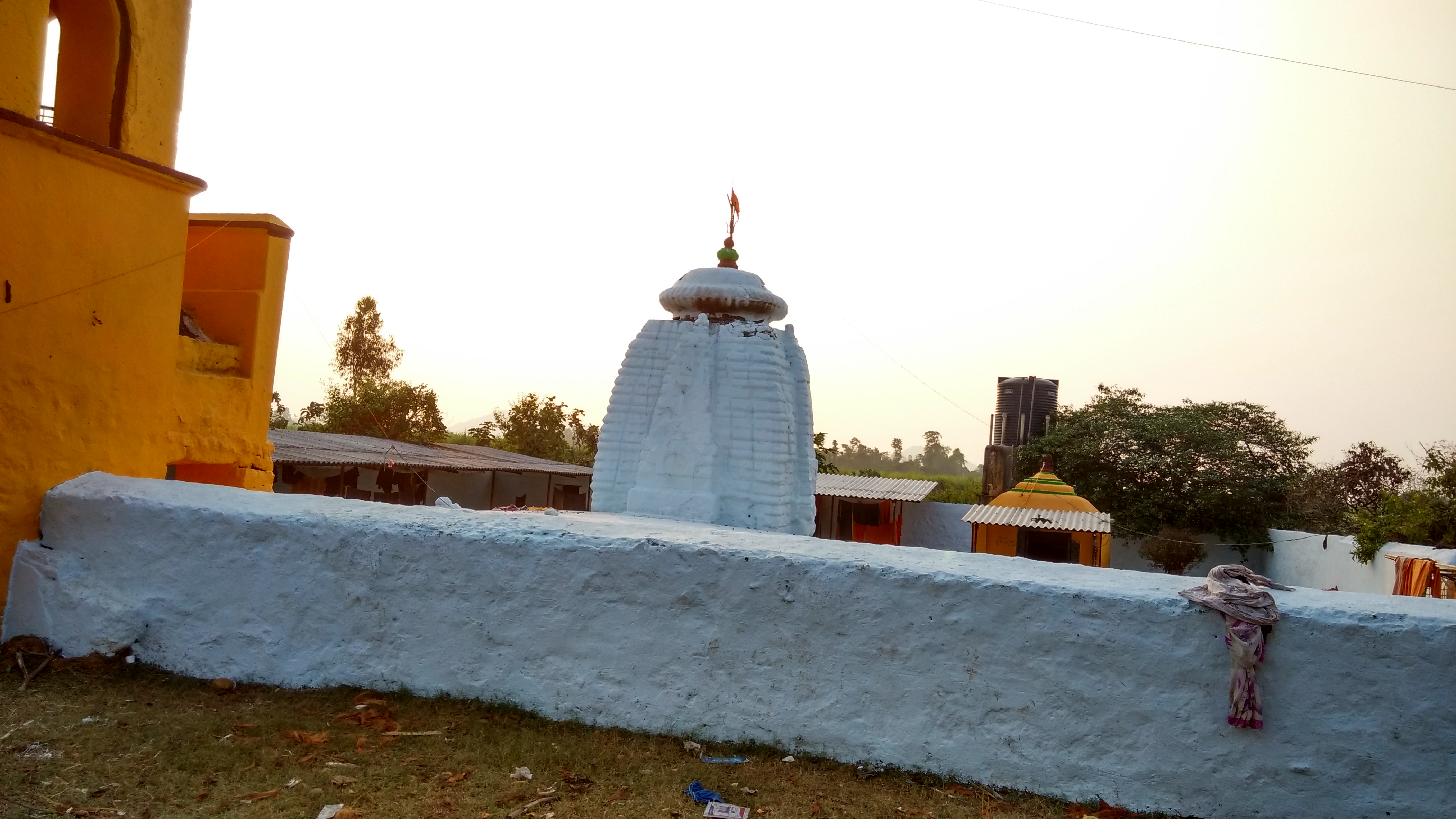 Sangam sangameswaramTemple